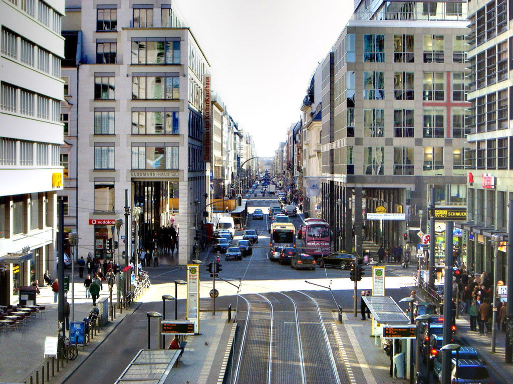 View towards the famous Friedrichstraße in Berlin downtown, known from the roaring 1920s.